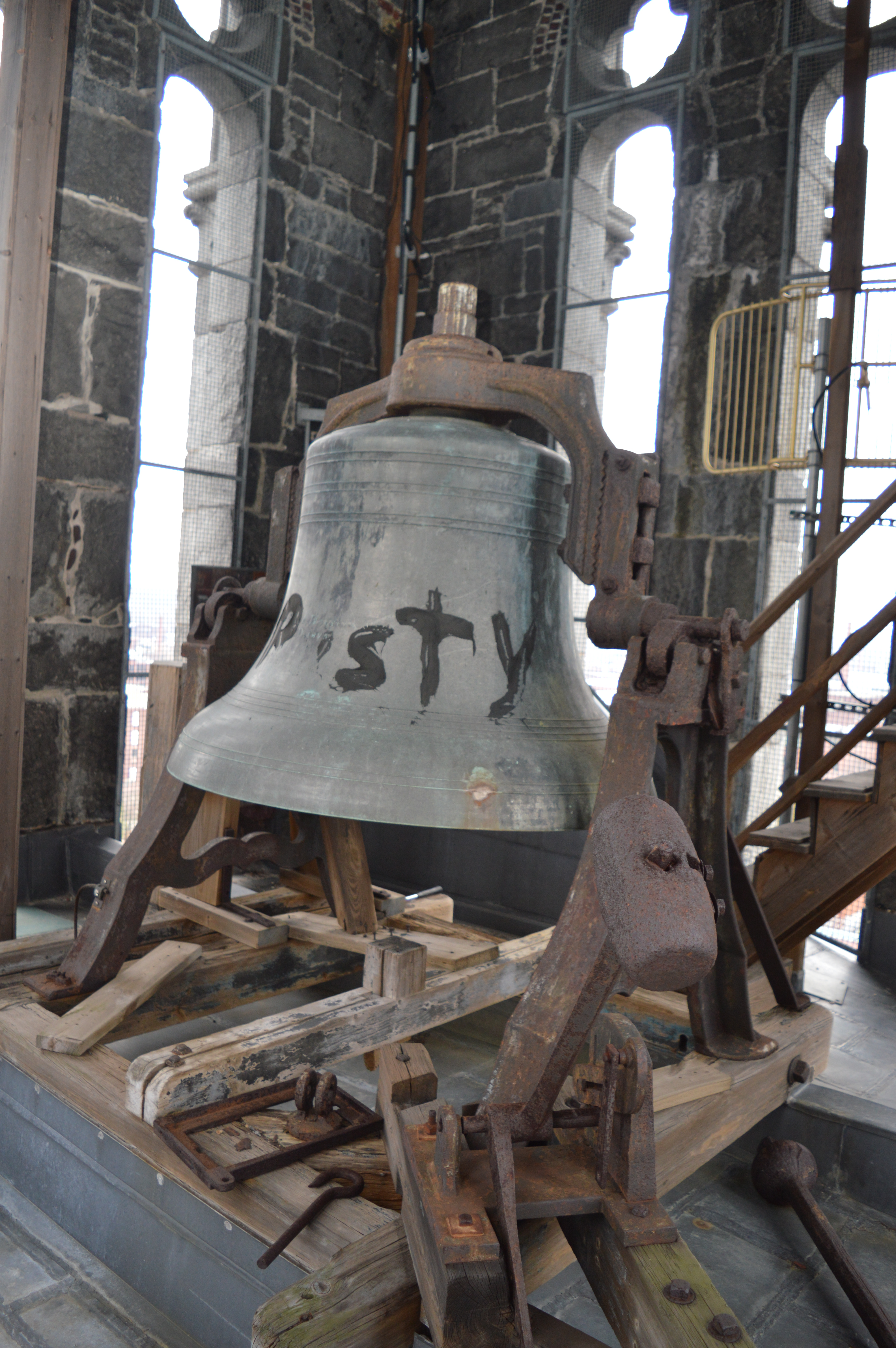 The Jones & Co. bell mounted in the tower of Holyoke City Hall, inscribed with the year 1875 and covered in tar with the word "rusty" emblazoned upon it. While the clock mechanism has been restored, the bell ringing mechanism has a number of issues that will need to be addressed before it can be rung again, including a crack on the yoke where the bell itself is attached to the clapper bolt. The original clapper, not used in the mechanism, can be seen lying on the ground to the right side.